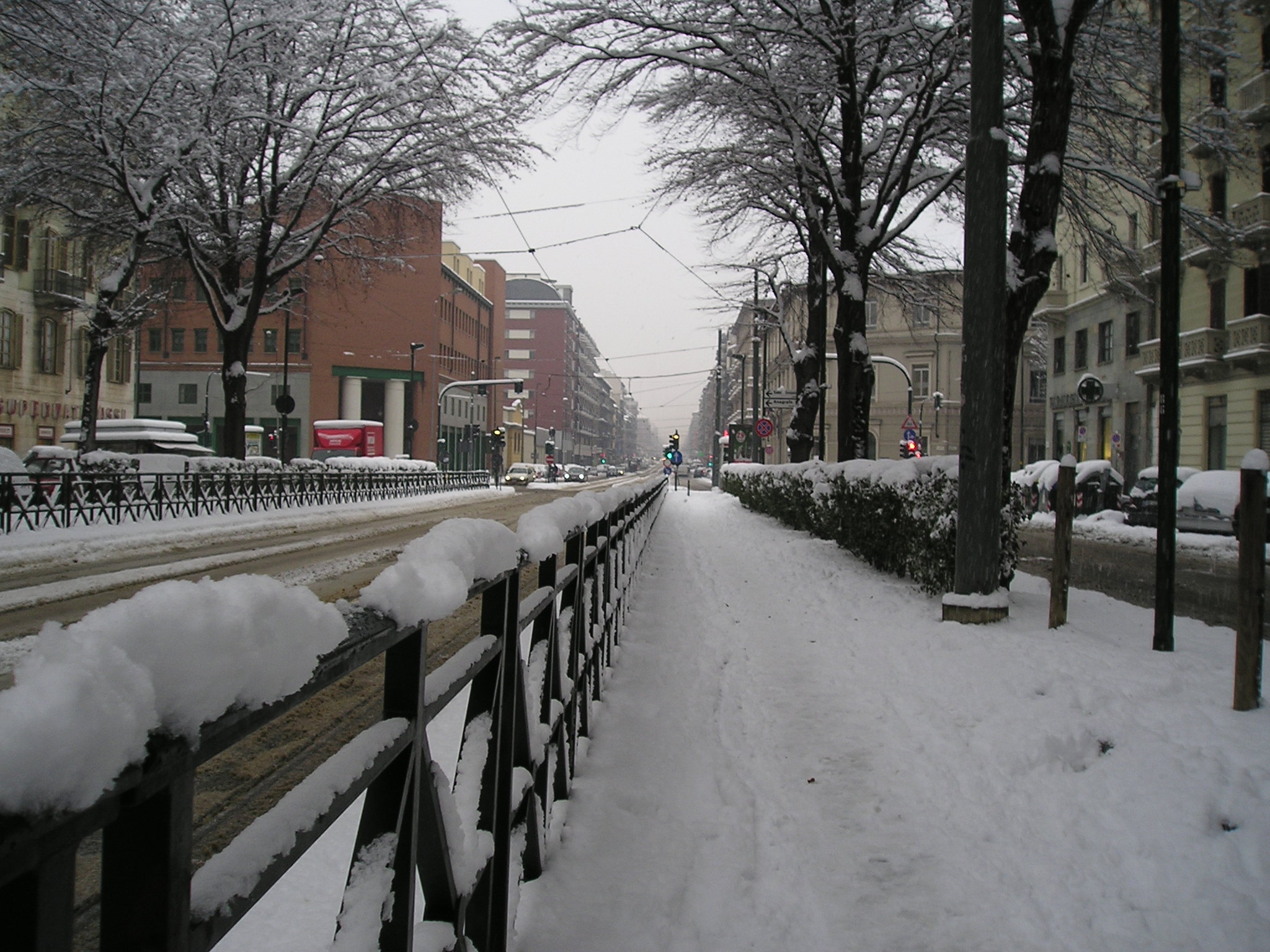 Corso Giulio Cesare in the snow